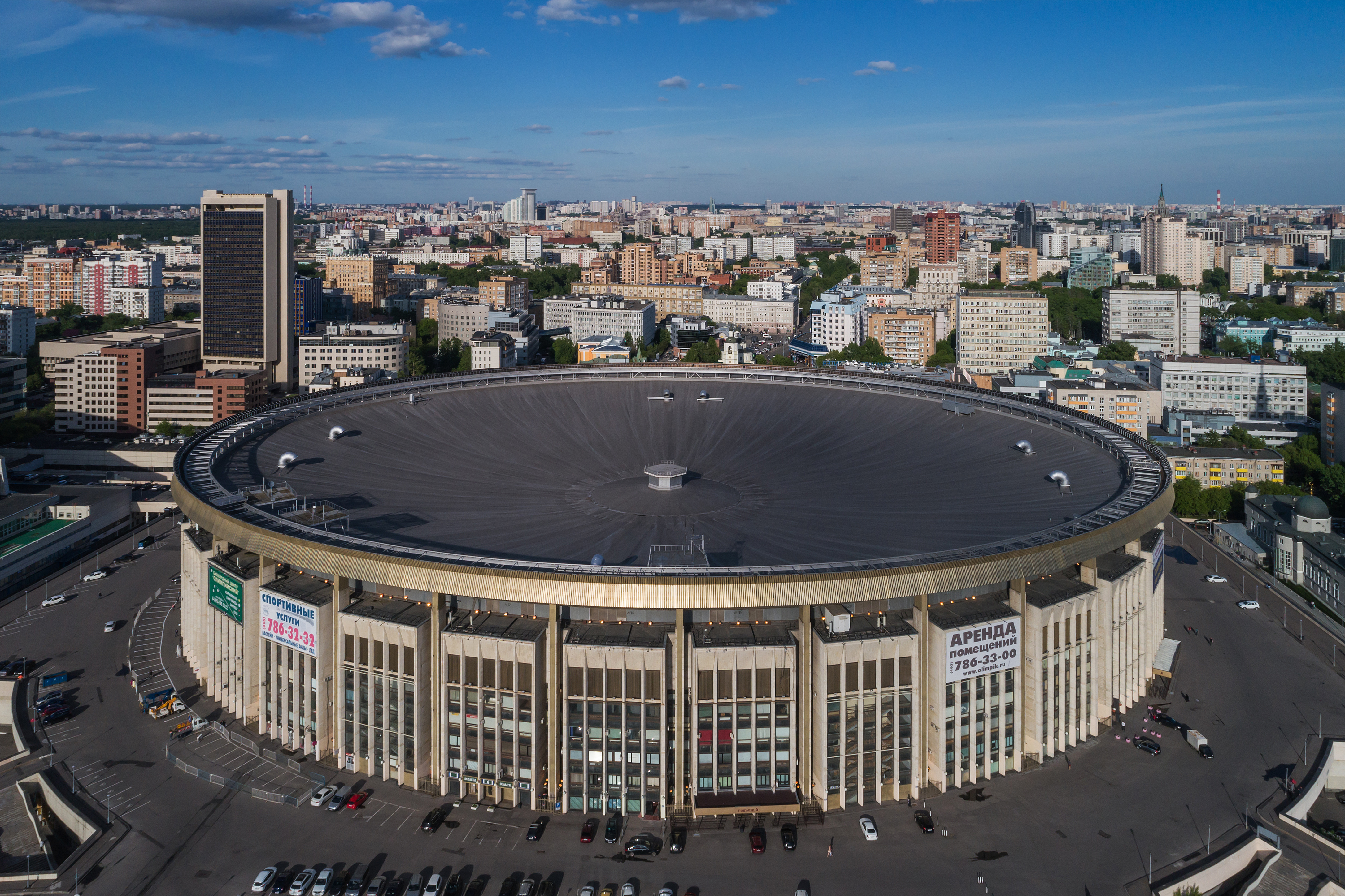 Aerial photo of Olimpiysky Indoor Arena in Moscow (Russia).